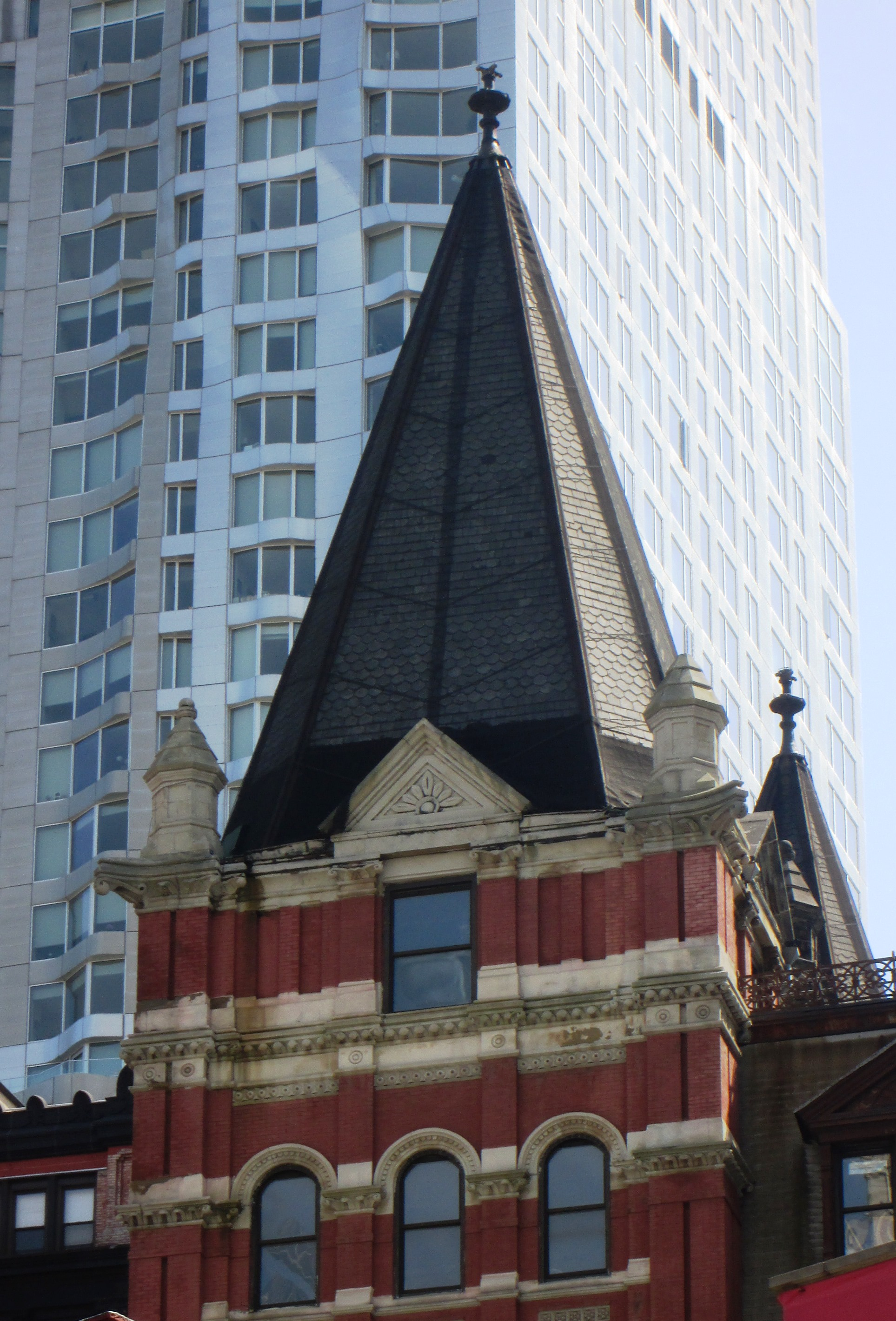 The Temple Court Building and Annex at 3-9 Beekman Street between Theater Alley and Nassau Street in the Civic Center neighborhood of Manhattan, New York City was built in 1881-83 and was designed by Silliman & Farnsworth in a combination of the Queen Anne, neo-Grec and Renaissance Revival styles. The Annex was built in 1889-90 and was designed by James M. Farnsworth. It is one of New York City's oldest tall office buildings, and was designated a NYC landmark in 1998. (Source: Guide to NYC Landmarks (4th ed.)) This view of the top is from Park Row.